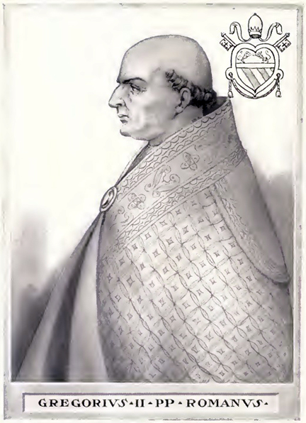 This illustration is from The Lives and Times of the Popes by Chevalier Artaud de Montor, New York: The Catholic Publication Society of America, 1911. It was originally published in 1842.